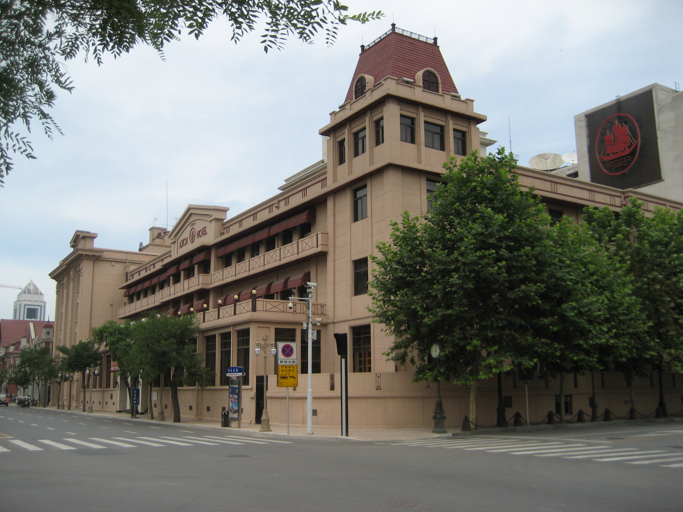 Tientsin Astor Hotel before its restauration 中文（中国大陆）: 天津的利順德飯店（利顺德大酒店 ）